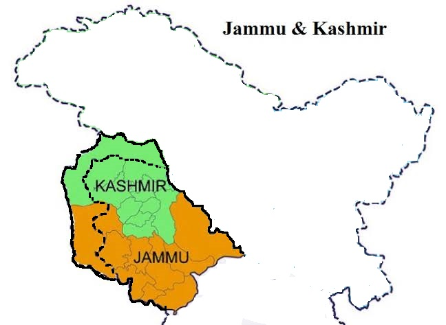 This map includes jammu and kashmir region of jammu amd Kashmir